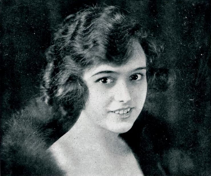 Actress Sylvia Field, on page 17 of the August 1922 Broadway Brevities. She was playing the leading female role in The Cat and the Canary at the National Theatre in New York City.